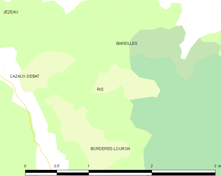 Map of French commune